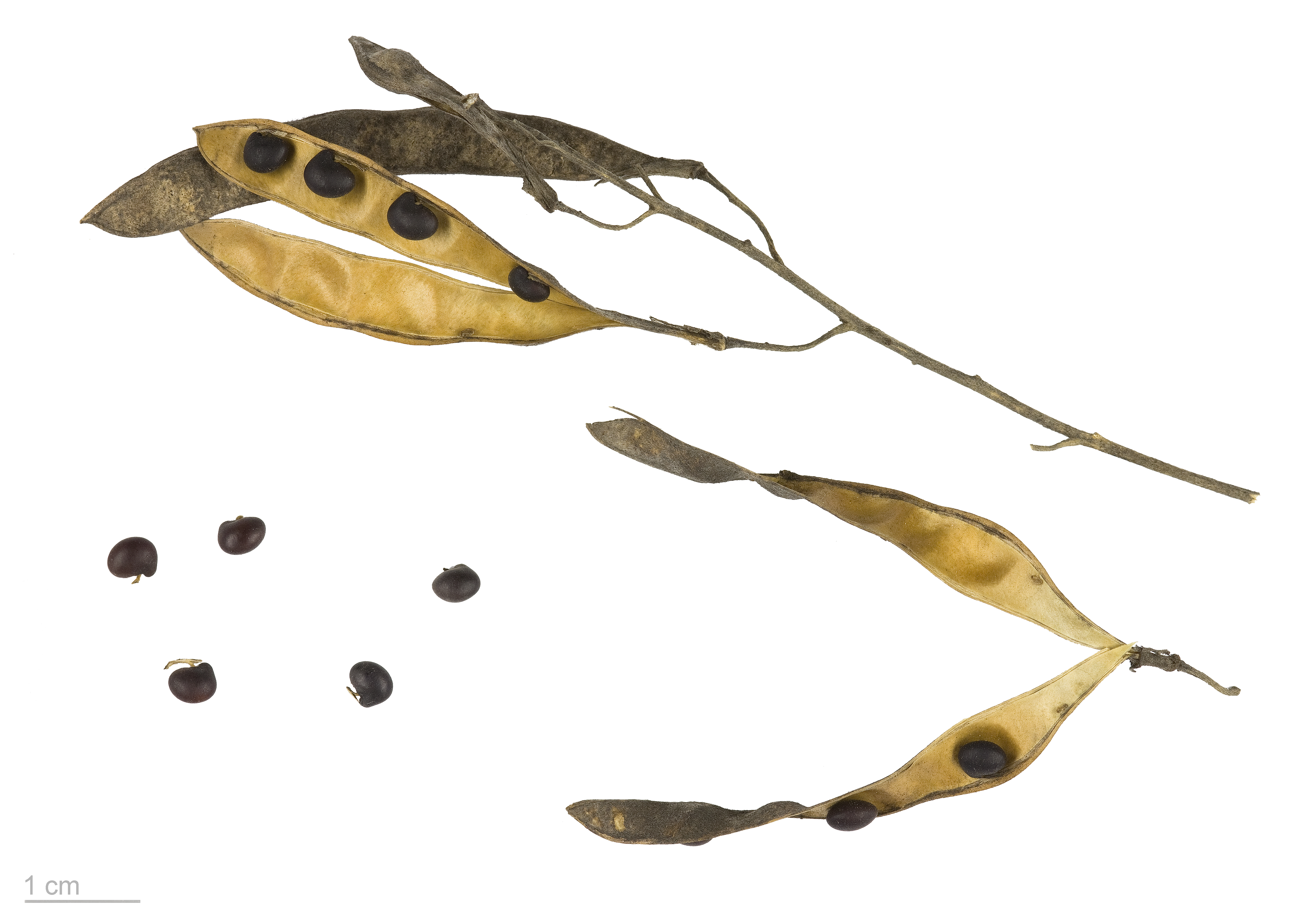 Common Laburnum , fruits and seeds